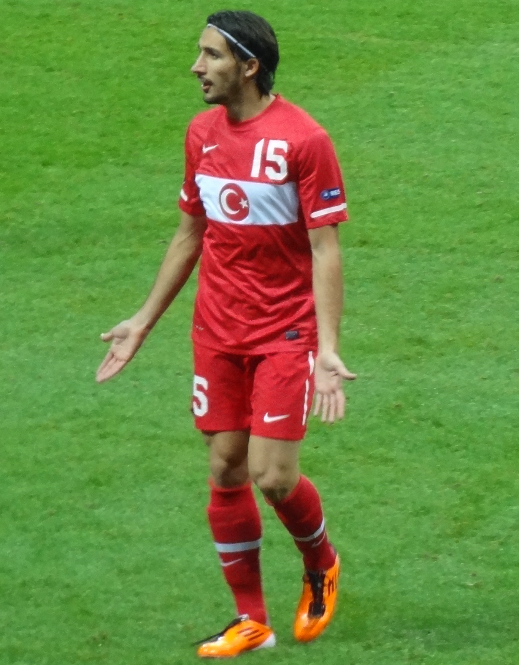 mehmet topal playing for turkey against croatia